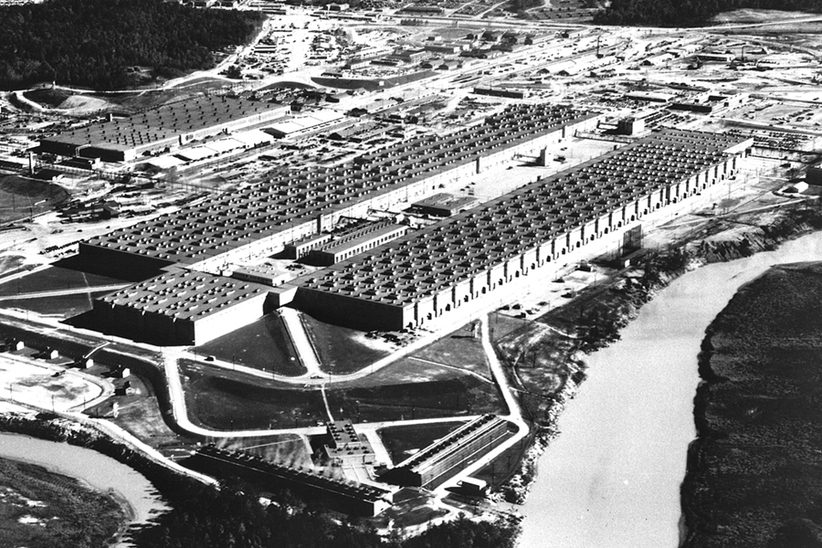 Oak Ridge Gaseous Diffusion Plant aerial view.